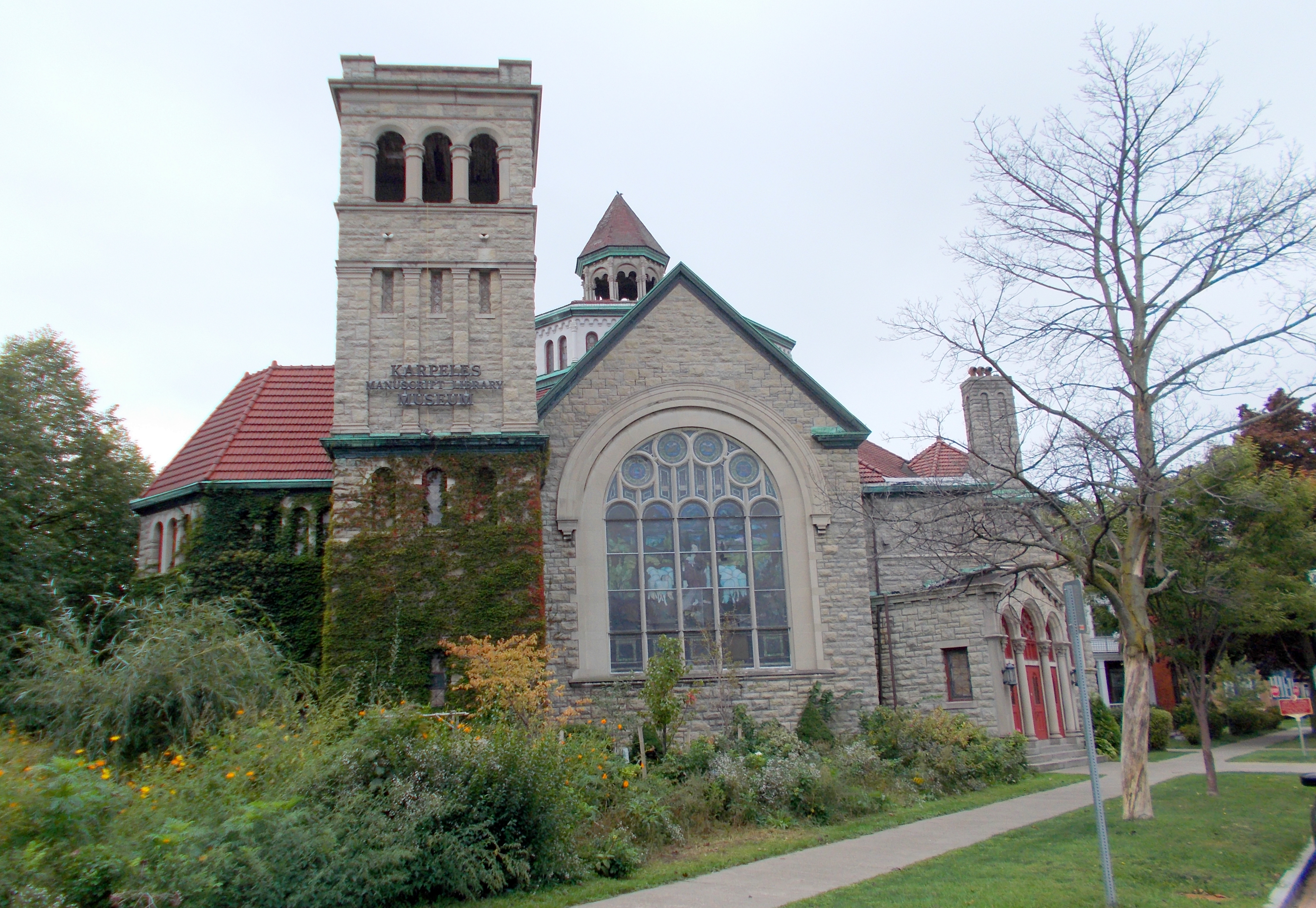 Plymouth Methodist Episcopal Church / now Karpeles Library and Manuscript Museum (1912), Fargo Estate Historic District, September 2016